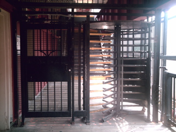 Exit-only turnstile and gate at 79th Street